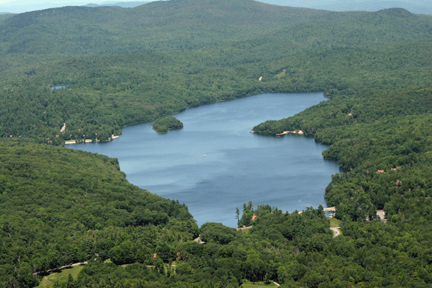 Aerial photo of Eastman Pond